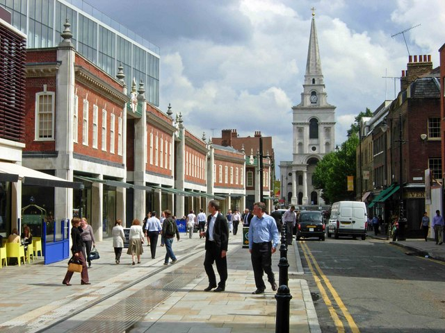 Brushfield Street, Spitalfields. Looking along Brushfield Street towards Christ Church, with Old Spitalfields Market on the left.